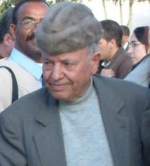 Bensaïd Aït Idder prior to the 2nd Congress PSU 17-19 February 2007